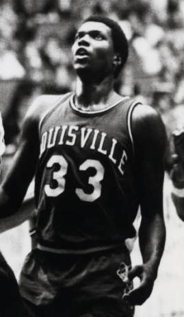 Charles Jones as a player for the Louisville Cardinals men's basketball team.